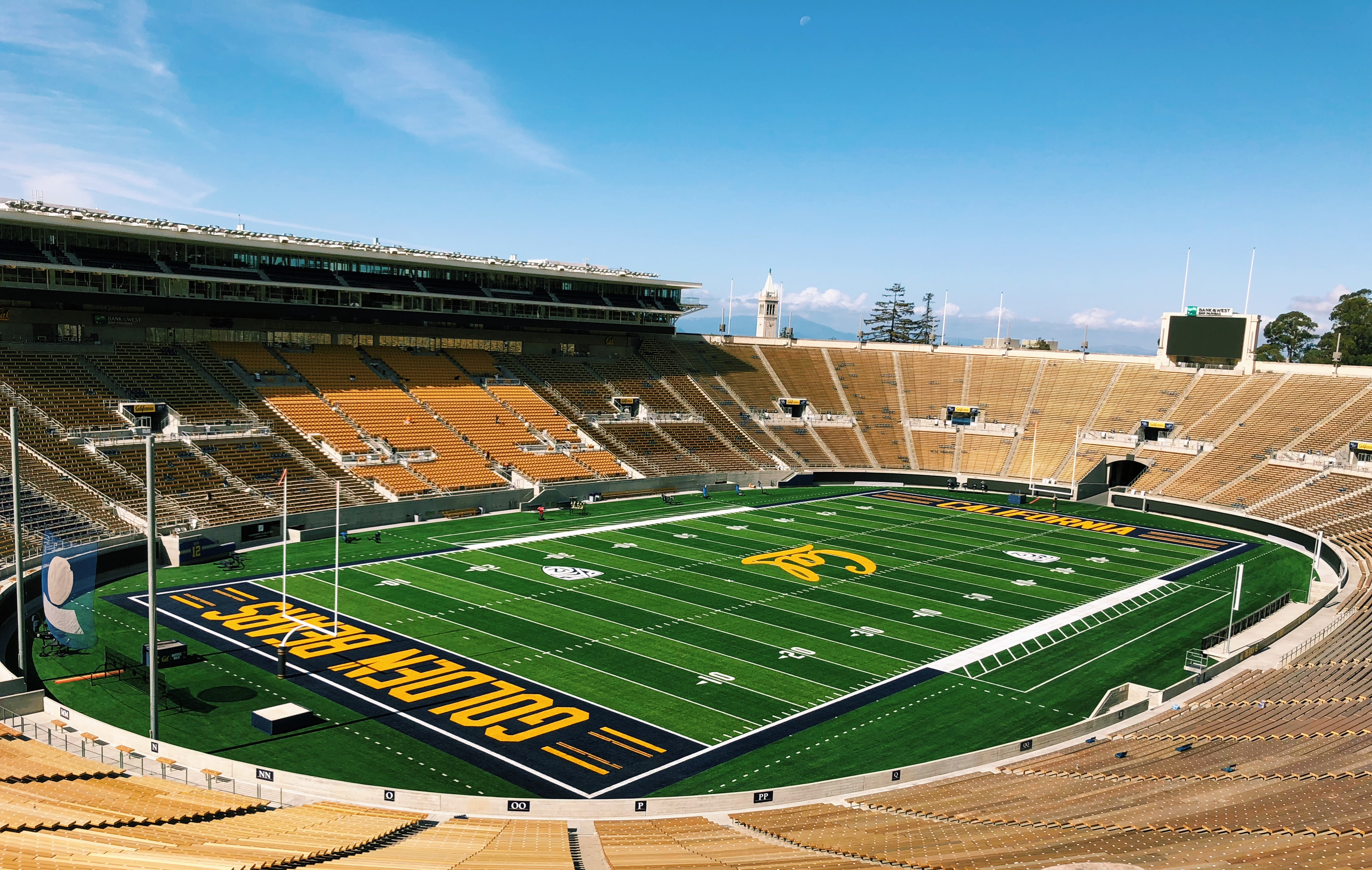 This photo was taken in Fall 2018 from access of the California Memorial Stadium, where the University of California, Berkeley Football team plays, among others.